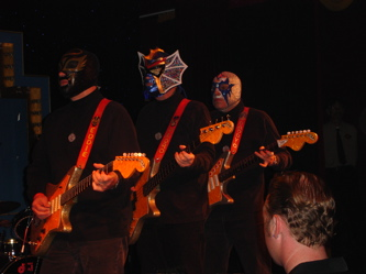 Los Straitjackets concert on the Viva Las Vegas (VLV) Rockabilly festival at the Goldcoast casino in Las Vegas, NV on March 26, 2005.